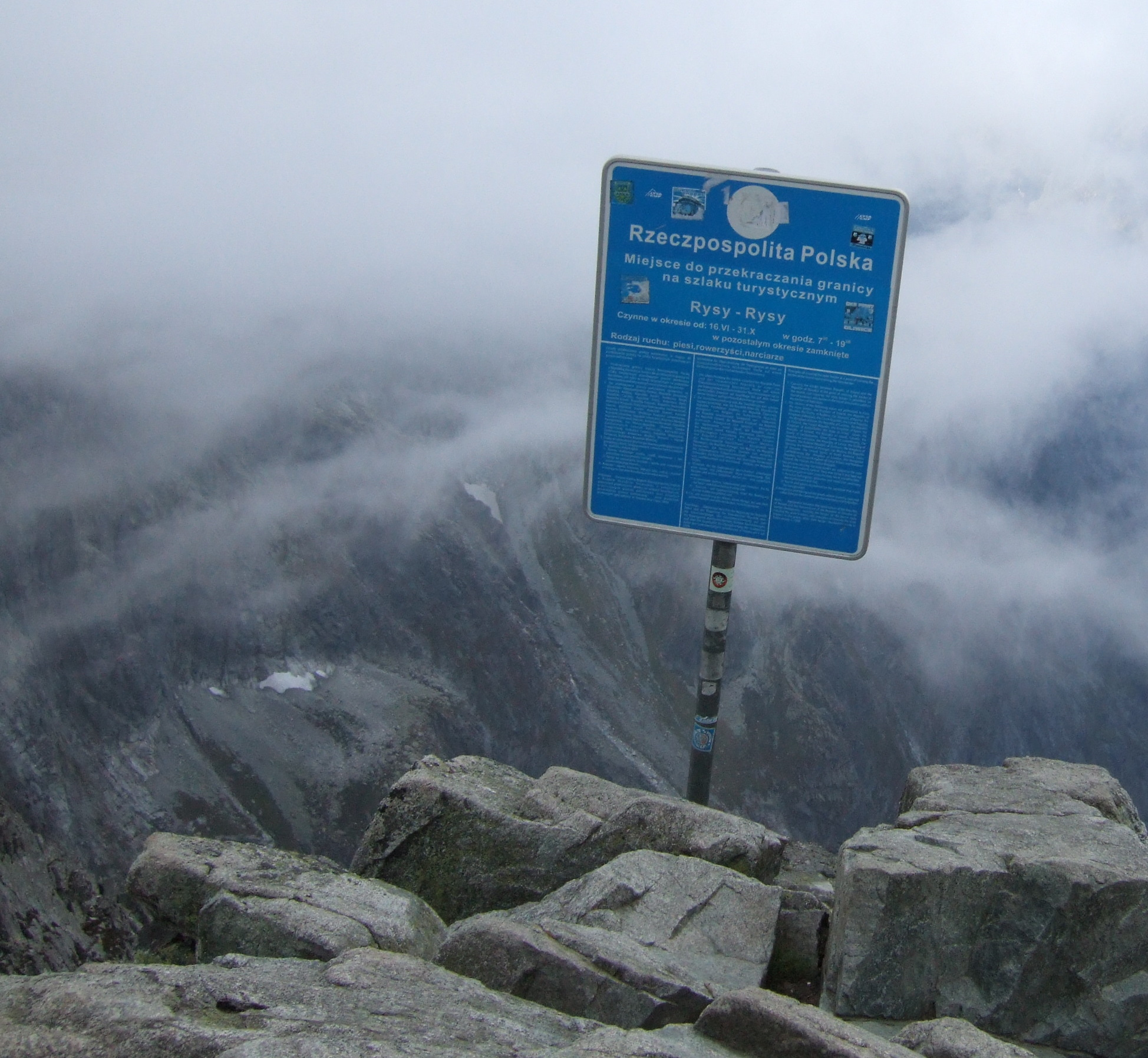 The sign indicating the border between Slovakia and Poland, on Mt Rysy in the high Tatras mountains. Taken by me.